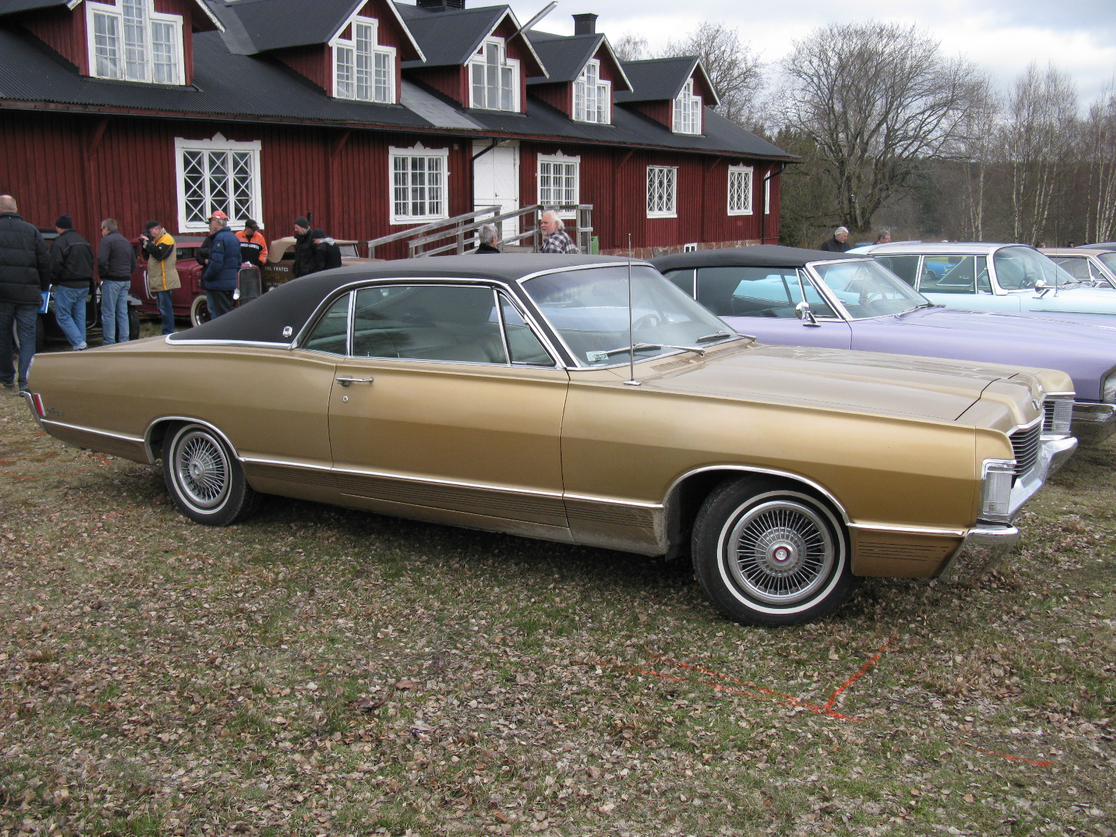 Mercury Marquis 1968